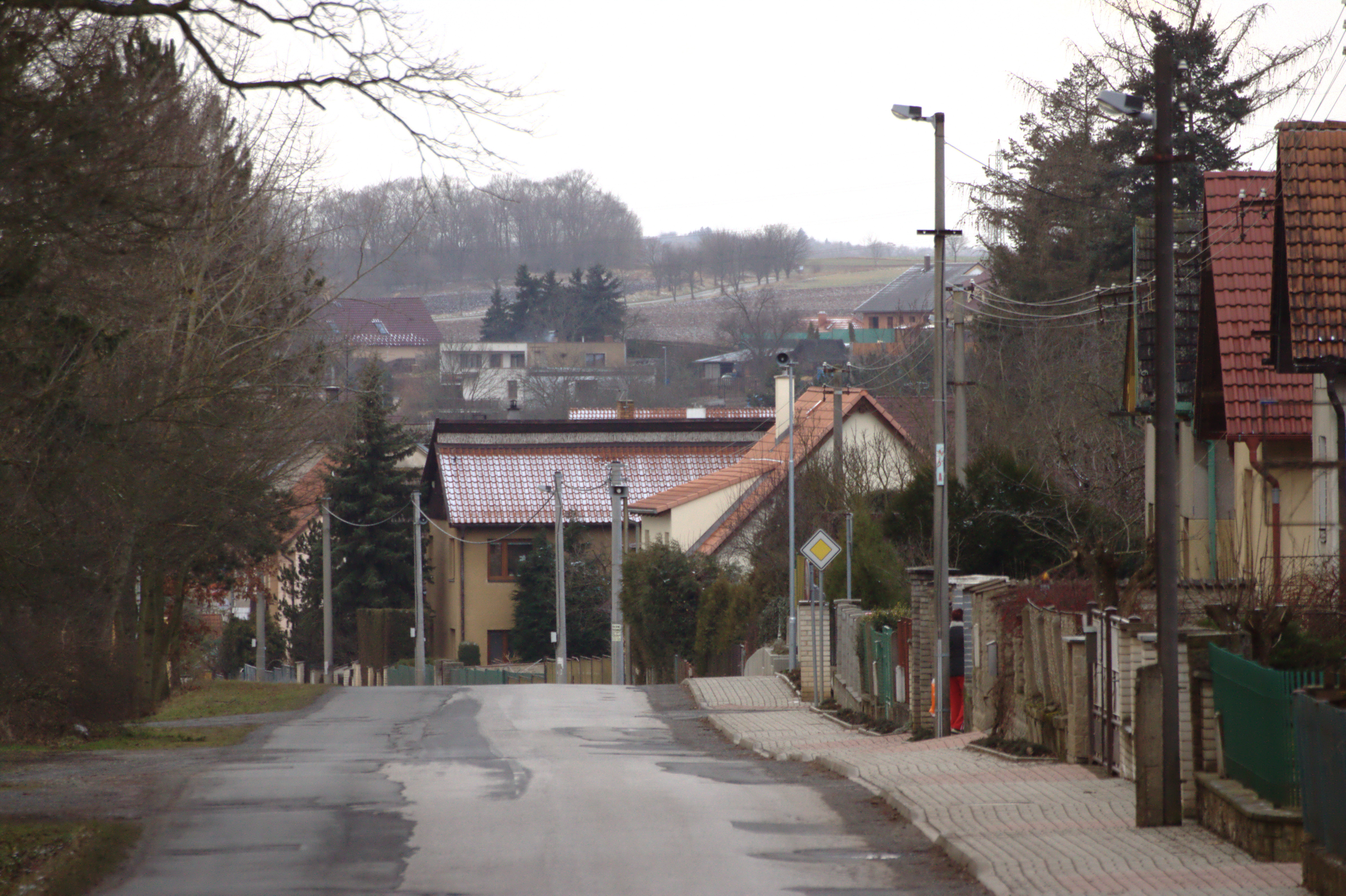 Main road in Třebotov, Central Bohemia